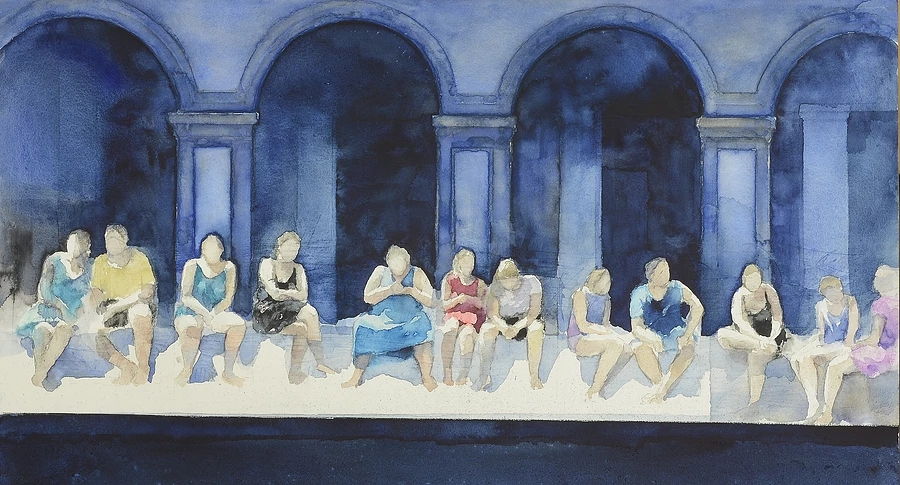 Aguarela de Paulo Ossião